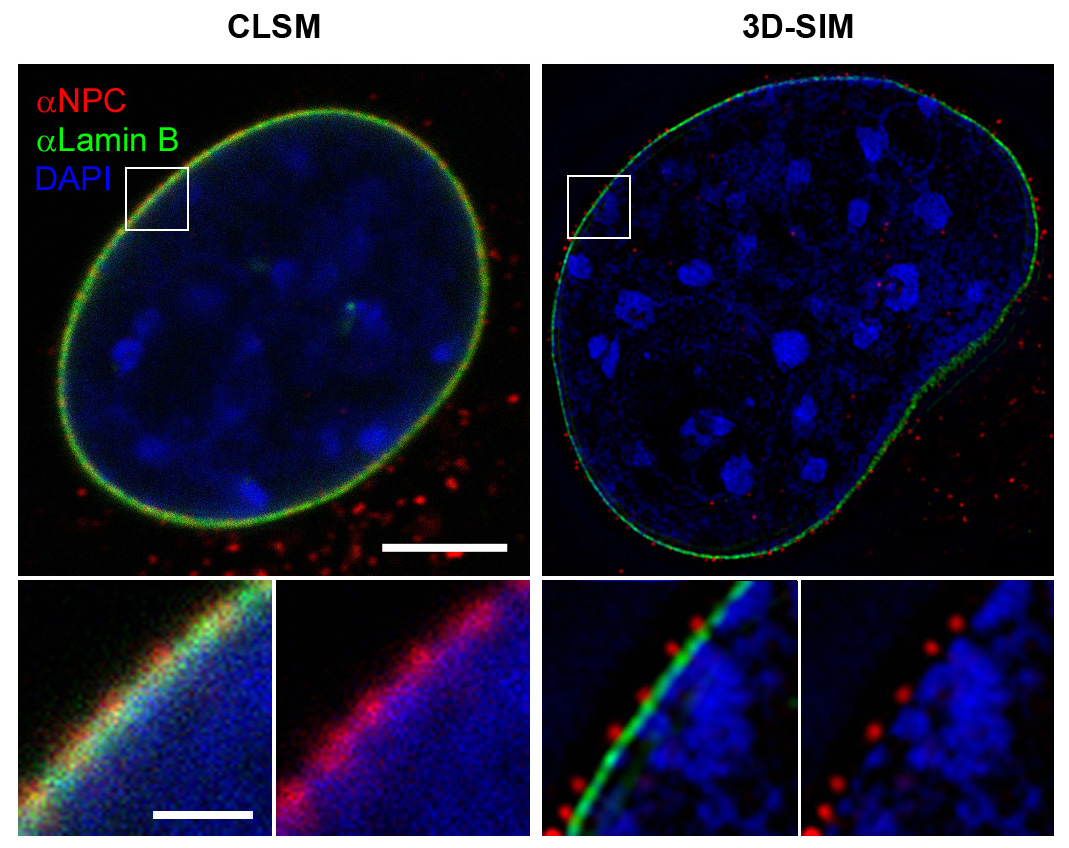 Comparison of resolution obtained by confocal laser scanning microscopy (clsm, left) and 3D structured illumination microscopy (3D-SIM-Microscopy, right). Top images each show a nucleus of a mouse cell, the white boxes are magnified at the bottom. Nuclear pores (anti-NPC, red) nuclear envelope (anti-Lamin, green). Chromatin/DNA (DAPI, blue). scale bars: top 5 µm, bottom 1µm. For further information see: Schermelleh L, Carlton PM, Haase S, Shao L, Winoto L, Kner P, Burke B, Cardoso MC, Agard DA, Gustafsson MG, Leonhardt H, Sedat JW (June 2008). "Subdiffraction multicolor imaging of the nuclear periphery with 3D structured illumination microscopy". Science (journal) 320 (5881): 1332–6. PMID 18535242.